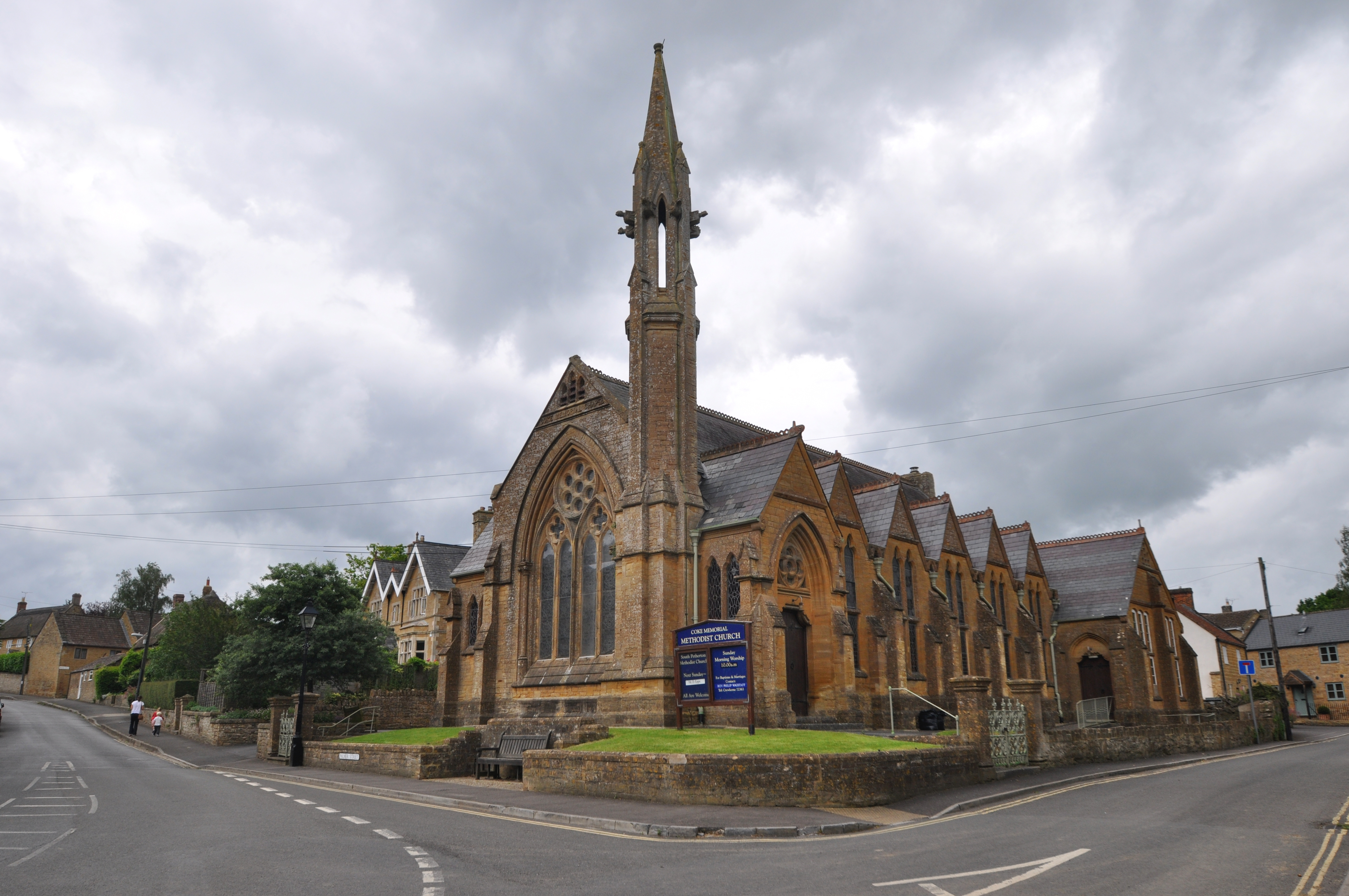 Coke Memorial Methodist Church Wikidata has entry Q26629507 with data related to this item.